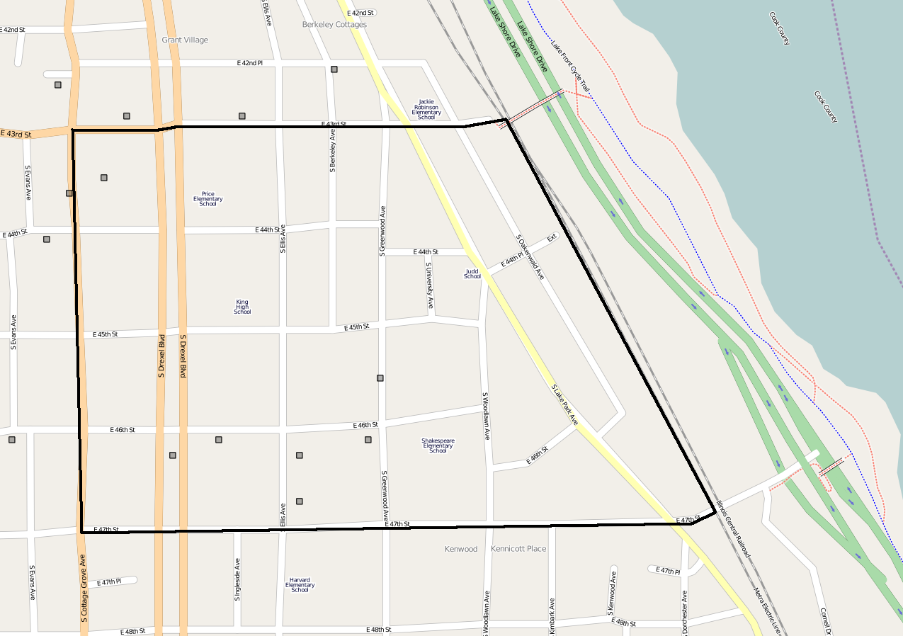 W:North Kenwood District of Chicago, Illinois This map may be incomplete, and may contain errors. Don't rely solely on it for navigation.